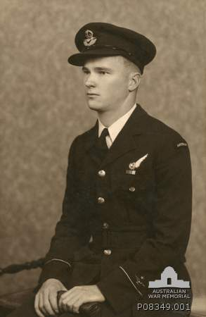 AWM caption : Australia: New South Wales, Dubbo. Studio portrait of 411596 Pilot Officer, later Flying Officer (FO) Allan Gordon Munro, 32 Squadron, of Coonamble, NSW. FO Munro enlisted in May 1941 and after promotion was a wireless airgunner on board Beaufort aircraft A9-642. On 27 December 1944, A9-642 was lost while engaged in submarine patrolling off the coast of North Queensland. No trace was found of the aircraft nor its crew of four men. FO Munro was 22 years of age.